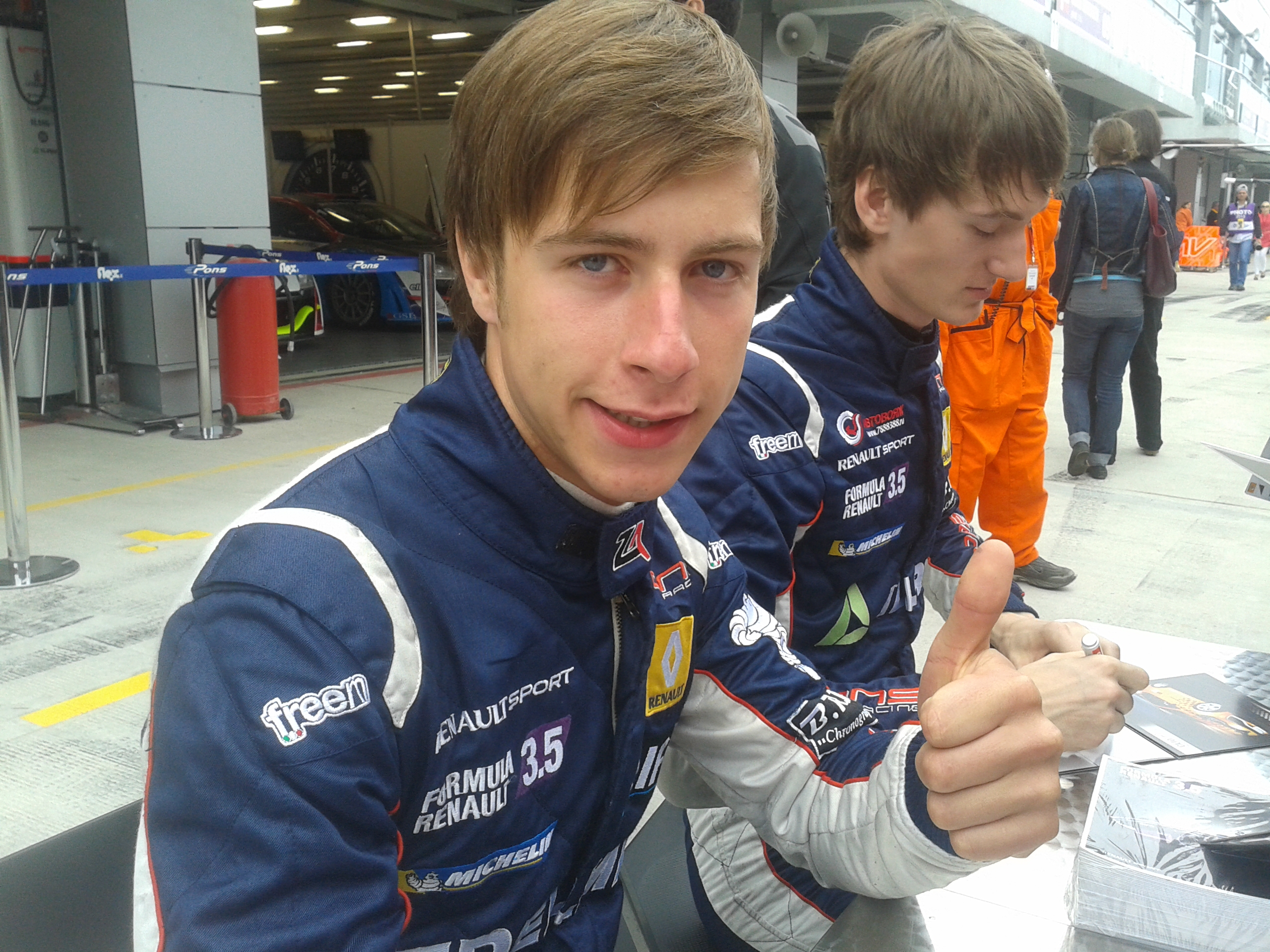 Zoël Amberg at Moscow Raceway, 22 June 2013